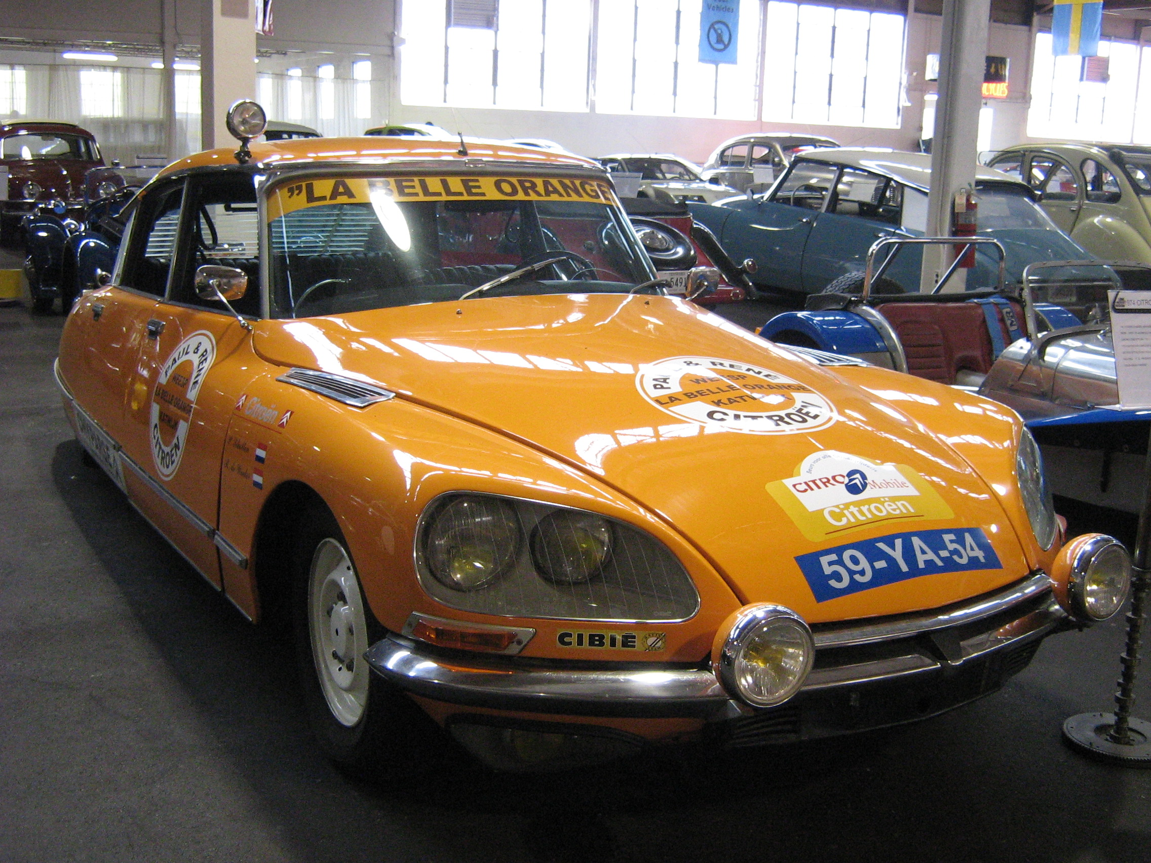 1974 Citroen DS21 Rally